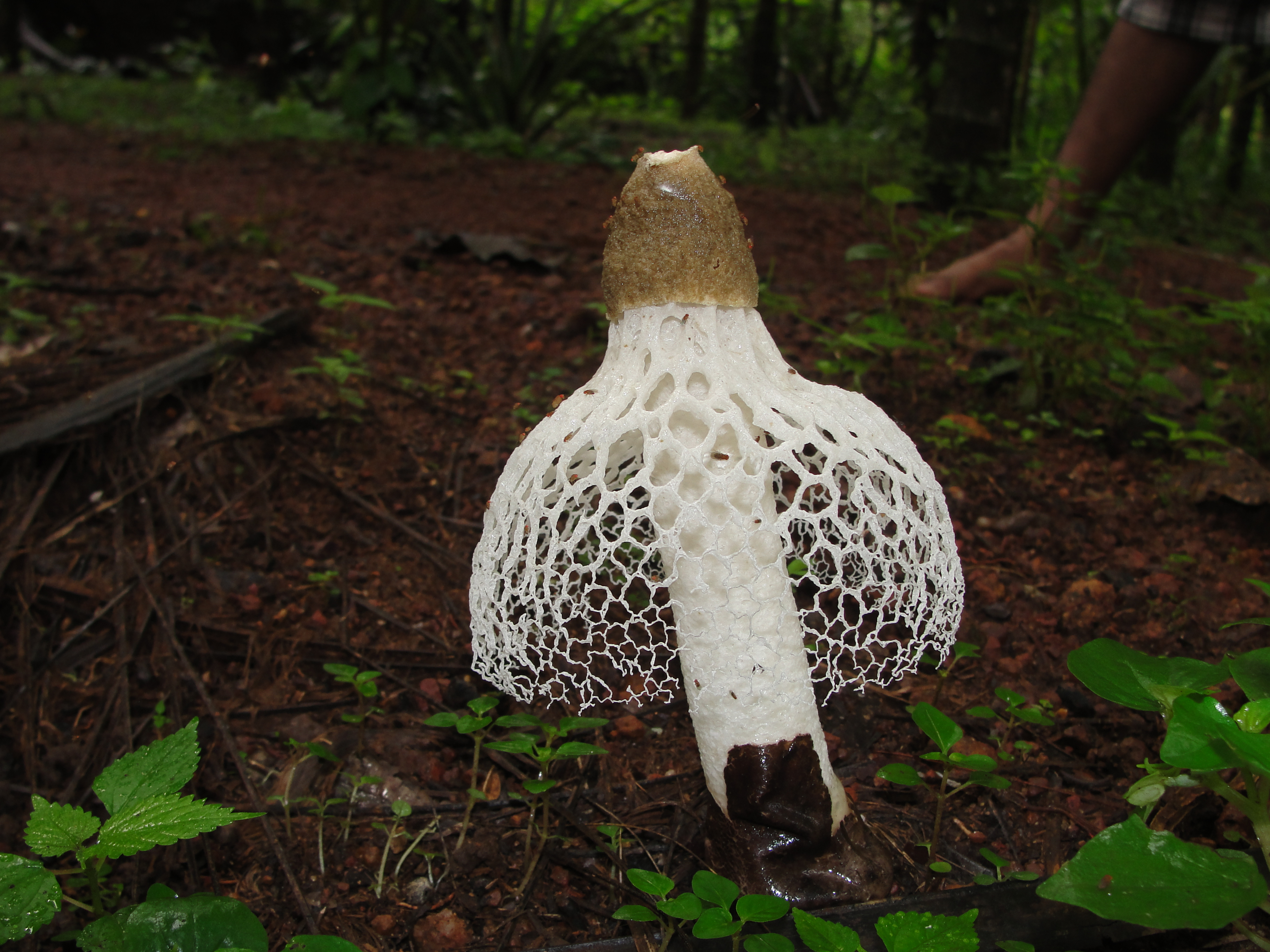 Phallus indusiatus found at Tarikatte,Udupi Dist,India